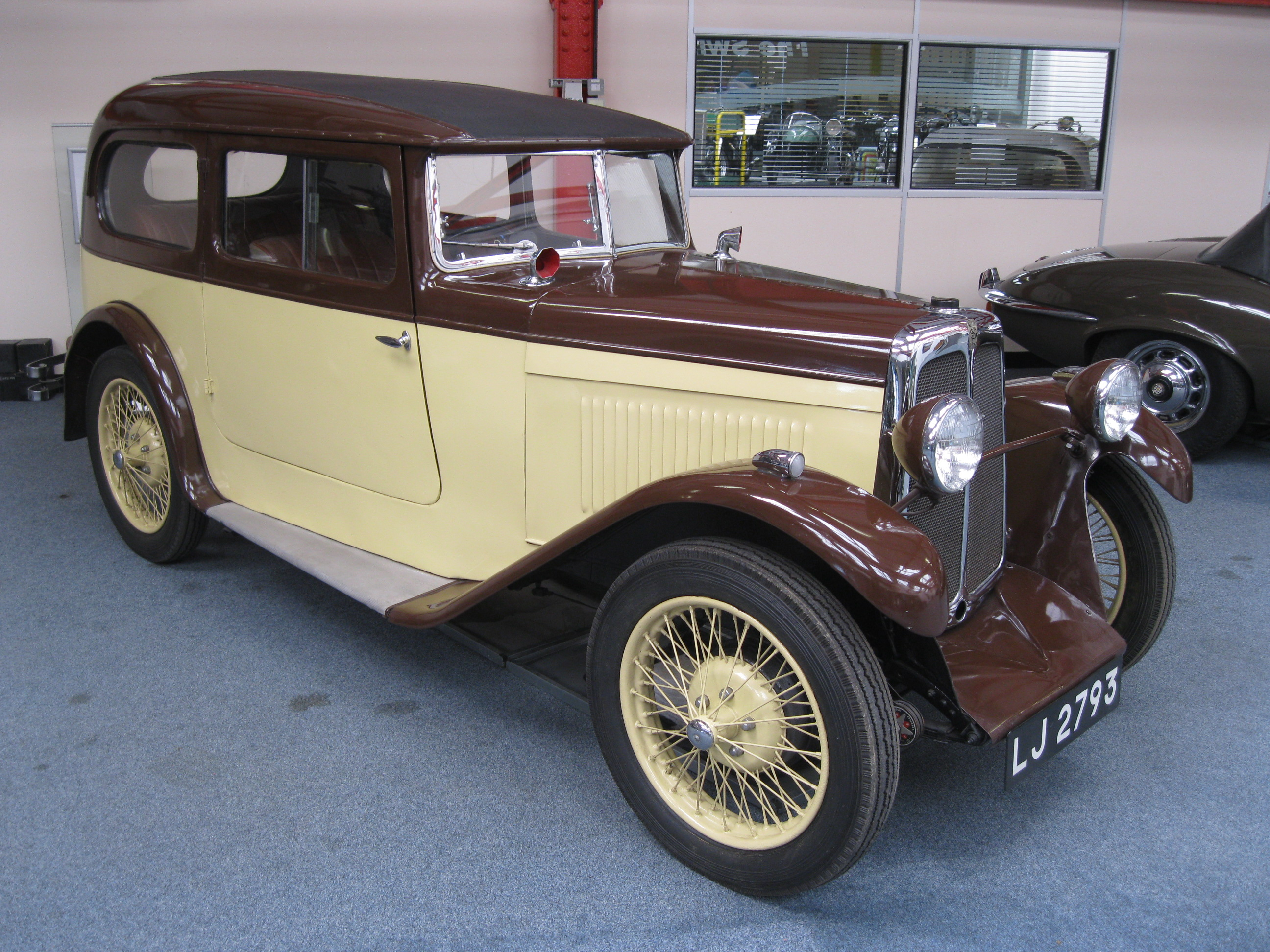 Beautiful example of Swallow 2-door saloon coachwork on a 1930 Standard Nine chassis. LJ 2793 (DVLA) first registered 1 November 1930, 1141 cc Coventry Transport Museum